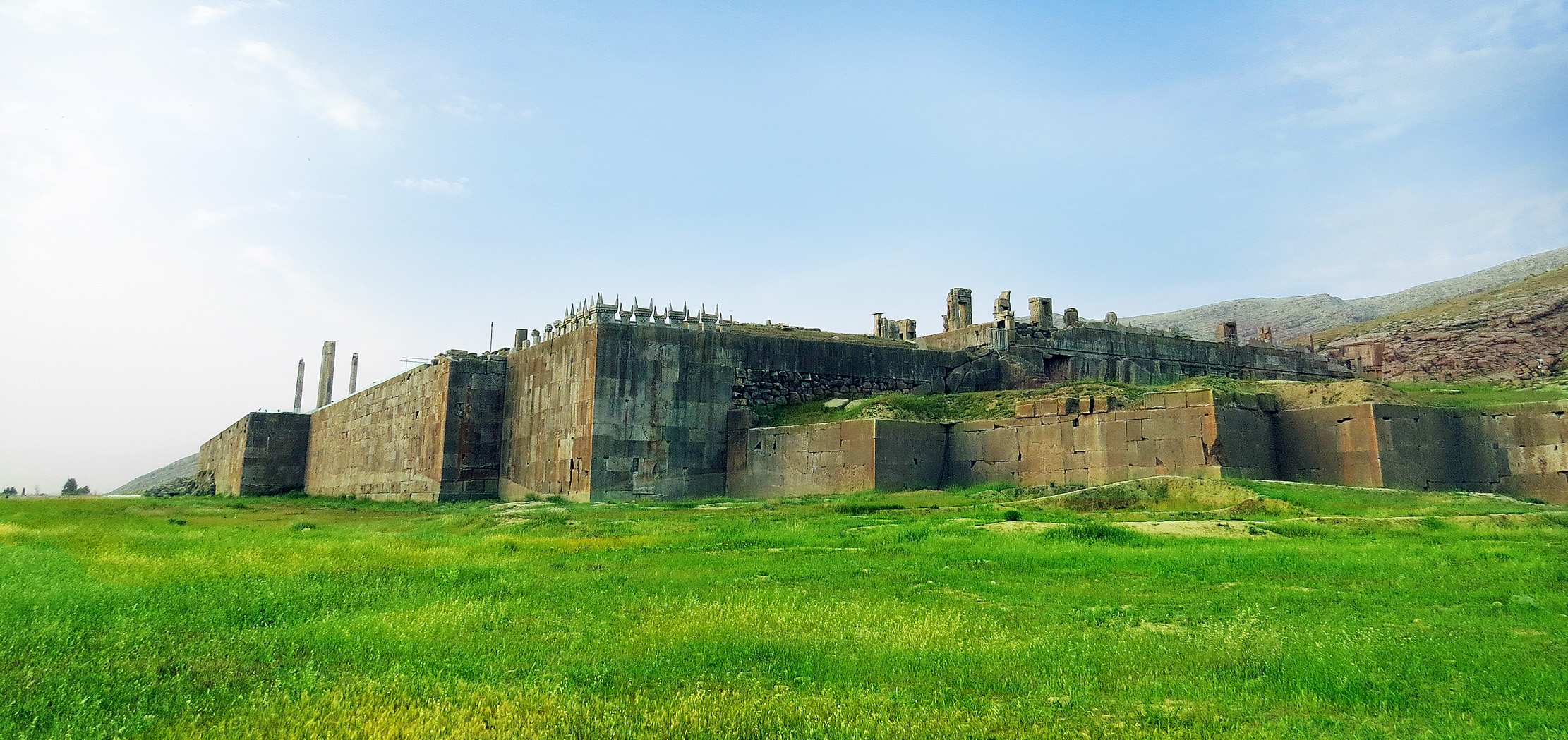 Ruins of the Palace of Artaxerxes I, Persepolis